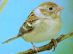 Field Sparrow at Isle Royale National Park